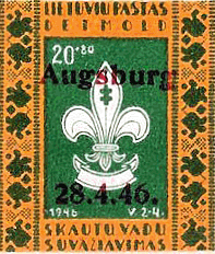 Detmold displaced persons camp stamp